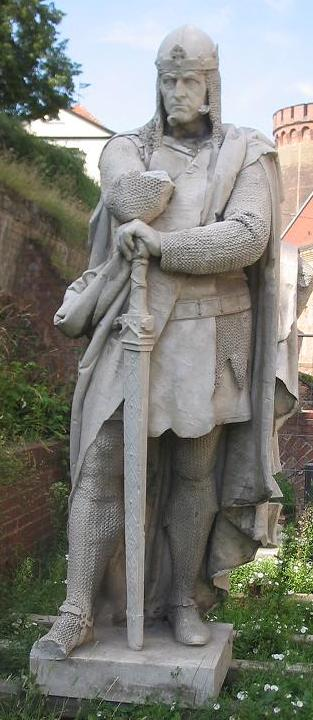 Central statue of the monument group № 3 in the former Siegesallee in Berlin, commemorating the third margrave from Brandenburg Otto II. Sculptor: Joseph Uphues. Statue unveiled on 22 March 1898. Shown here in the Spandau Citadel in August 2009, before its conservation-restoration.